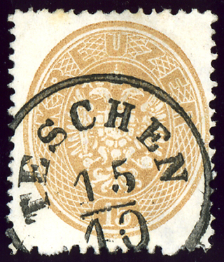 Austrian KK stamp 15 kreuzer issue 1863, cancelled at TESCHEN (Silesia, Czech Republic)